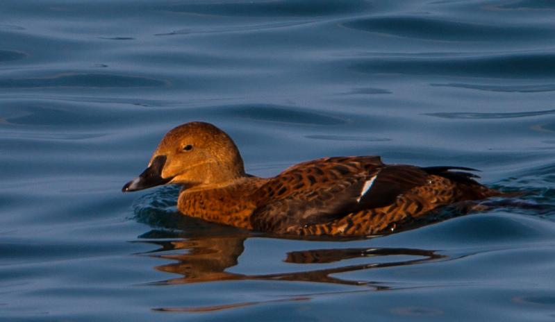 King Eider / Æðarkóngur Somateria spectabilis, female, Akranes, Iceland